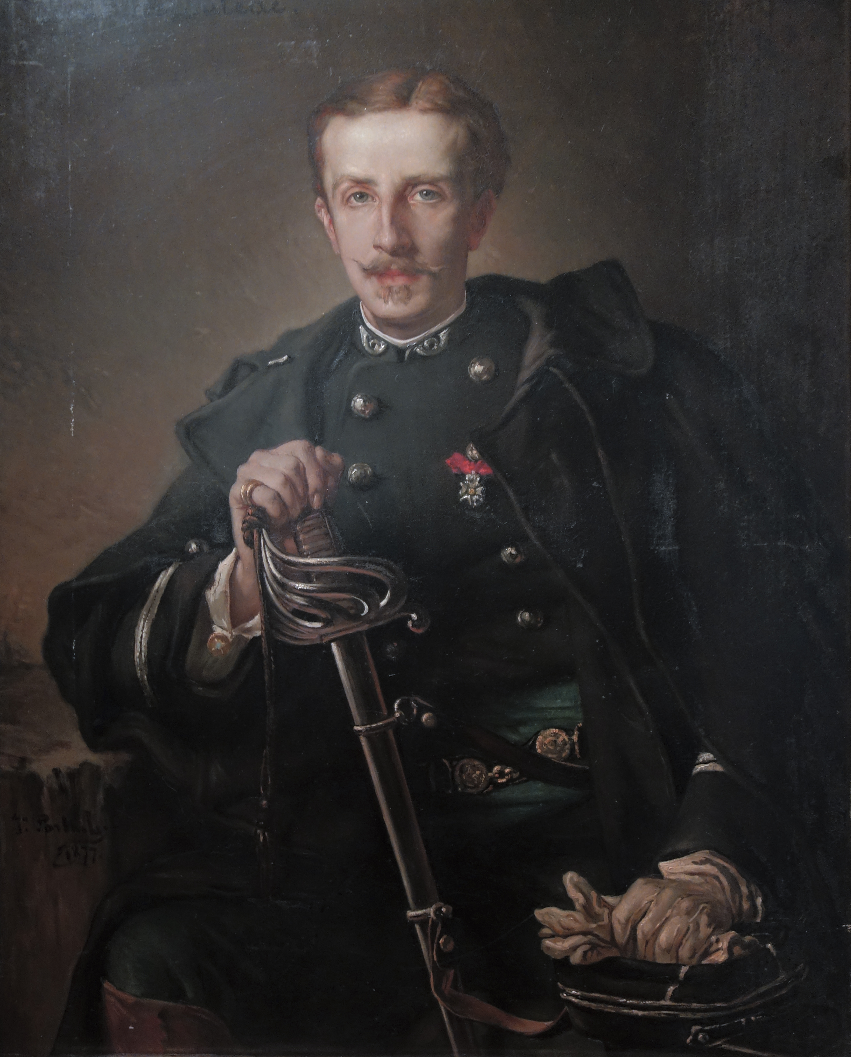 Paul Déroulède oil on panel signed b.l.: J. Portaels / 1877